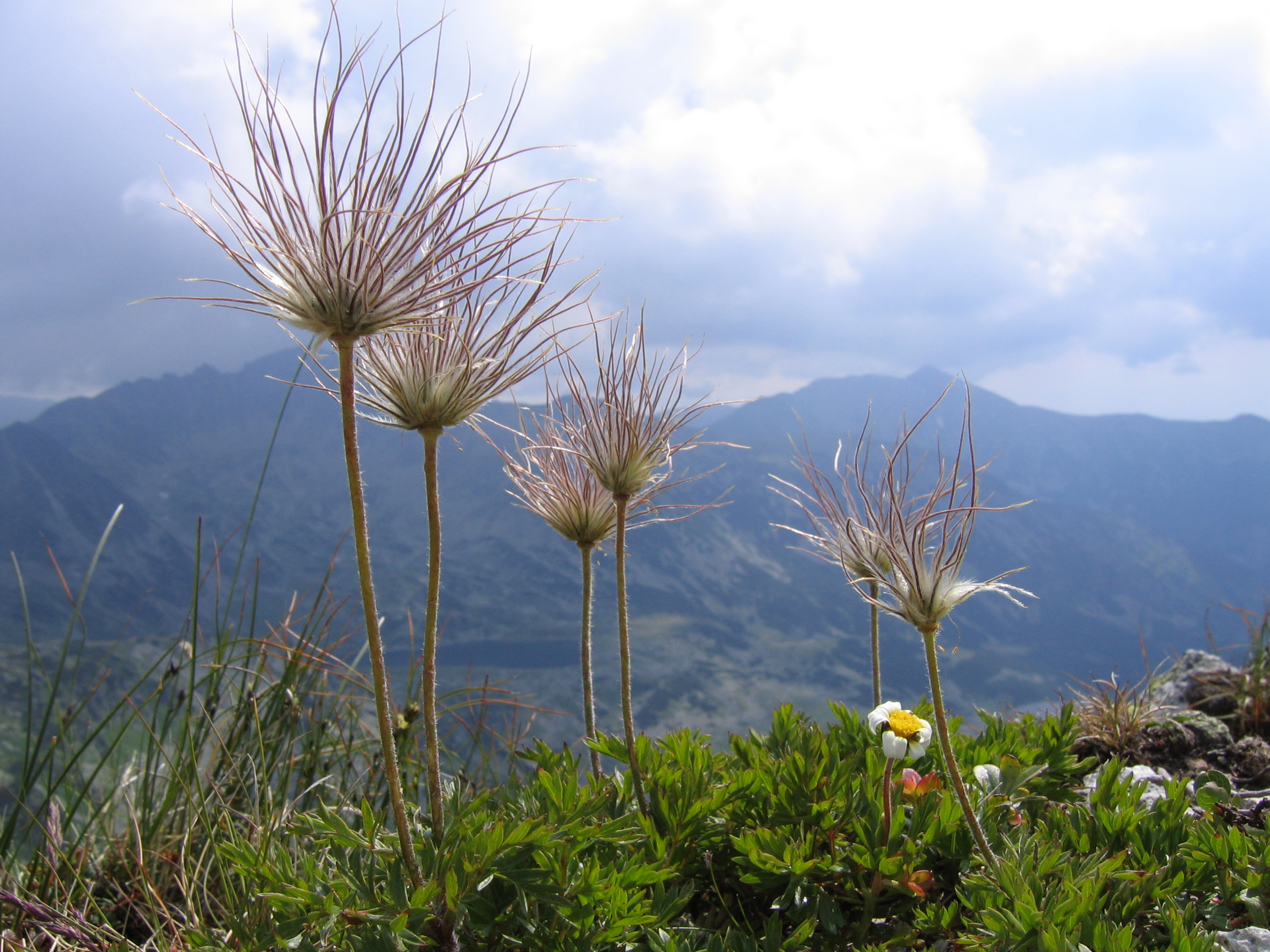 Pulsatilla alba (P. alpina subsp. alpicola) in Retezat mountains, Romania, identification by Franz Xaver